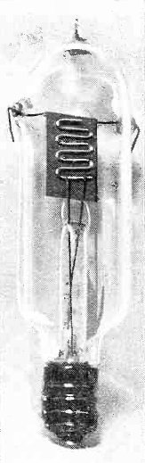 The first prototype Audion tube, invented by Lee De Forest in 1906. The Audion, the first triode vacuum tube and first amplifying electronic device, founded the field of electronics and made possible its benefits such as radio broadcasting, long distance telephone lines, audio recording, and talking motion pictures. It consists of an evacuated glass envelope containing three electrodes, which are visible in order from foreground to background: a U shaped wire filament (which in this tube has burned out), a grid consisting of zigzag wires, and a square metal plate. The three elements are located very close together. De Forest invented it by adding a third electrode to the Fleming Valve invented in 1904 by John Ambrose Fleming, which just contained a filament and a plate. De Forest tried many locations for a third electrode in the tube. This was the first tube he built with the grid electrode located in its modern position, between the filament and plate. This position allowed a voltage on the grid to control the current of electrons flowing from filament to plate, thus enabling the tube to amplify. It took a few years for De Forest and others to understand what was happening in the tube, and the Audion languished in obscurity until 1912, when its ability to amplify was recognized and it was widely applied to radio and telephone circuits. De Forest hired a small maker of electric light bulbs named McCandless to build his Audion designs, and it can be seen that the tube is just an early light bulb with the extra electrodes added. The filament is attached to the screw contacts in the base, and the grid and plate contacts are just brought out through the side of the glass bulb. Caption: "First vacuum tube with the control element in the form of a grid"